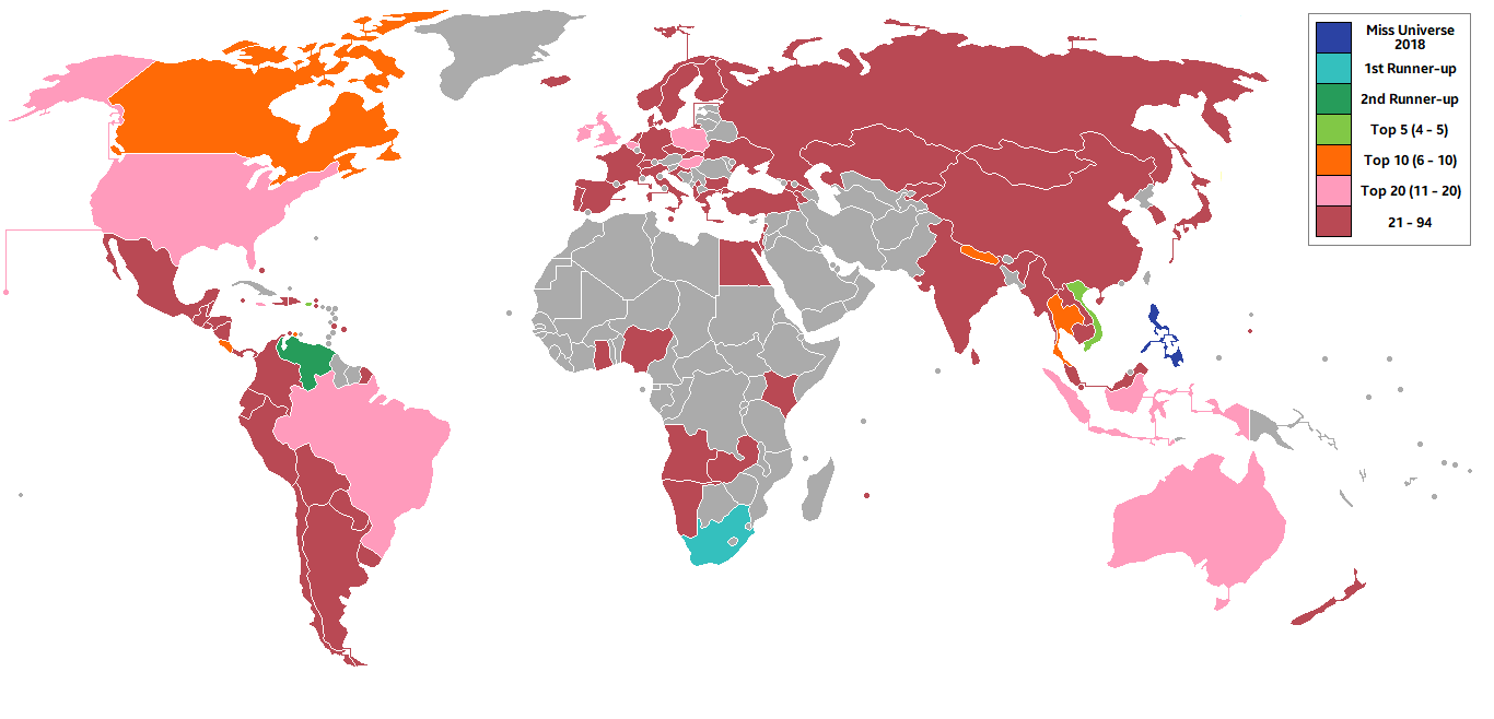 Miss Universe 2018 participant countries and territories.